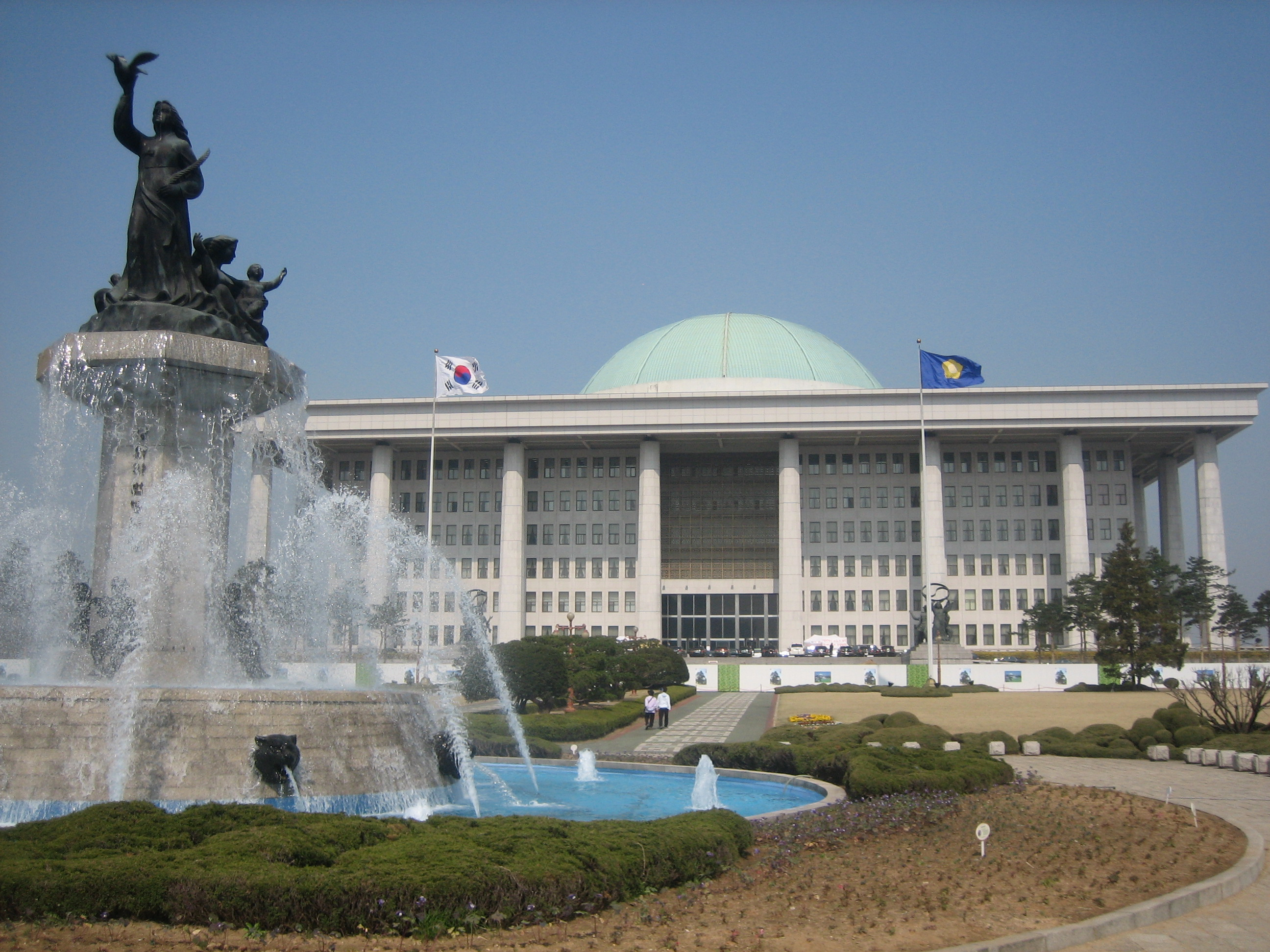 A view of National Assembly Building of South Korea in Yeouido, Seoul, South Korea